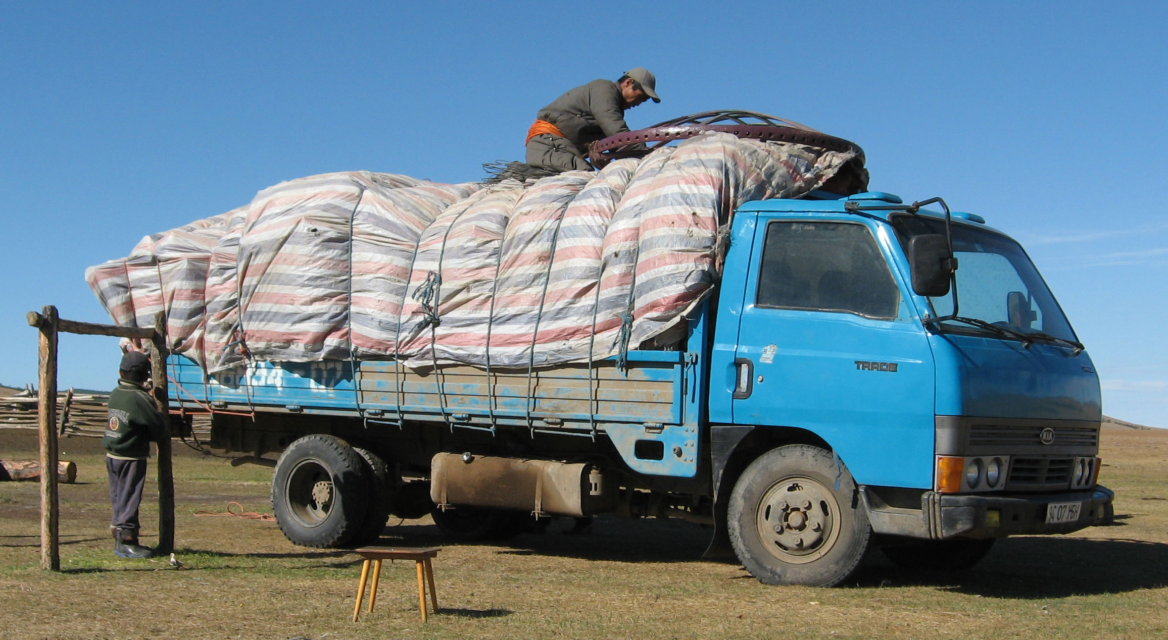 Kia Trade in Bürentogtoh, Hövsgöl, Mongolia. The load is one ger household.